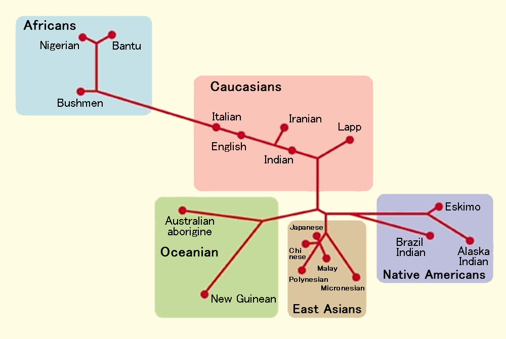 The thing which made the result that estimated of 18 world human groups by a neighbour-joining method based on 23 kinds of genetic information phylogenetic tree.